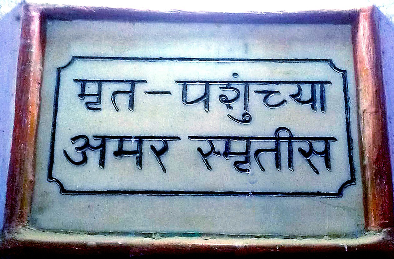 मृत पशूंच्या अमर स्मृतीस